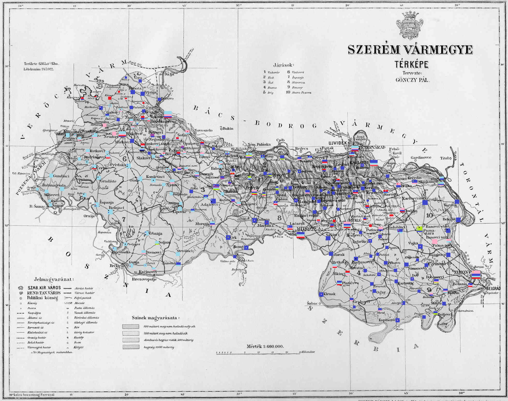 An ethnic map of Syrmia county according to the data of the 1910 census. Key: dark blue - Serbs; light blue - Croatians; pink - Germans; red - Hungarians; light green - Slovaks; violet - Ruthenians; black - Roma. Coloured dots in a plain rectangle imply the presence of smaller minority populations (generally more than 100 people or 10%). Multicoloured rectangles imply cities and villages with multi-ethnic populations with the order of the stripes following the ethnic composition of the settlement.